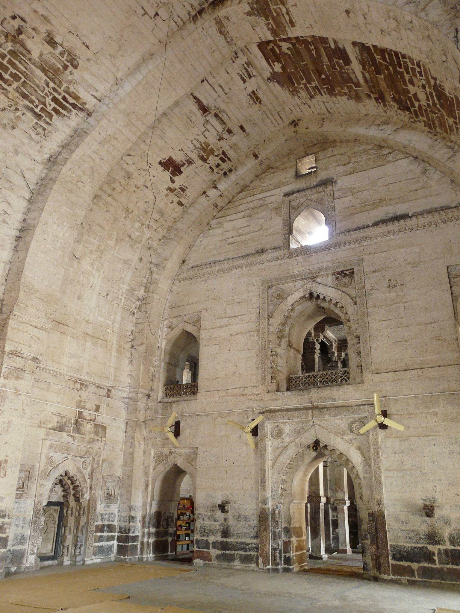 A vault of Badi Masjid or Jama Masjid (Friday Mosque), Jaunpur, Uttar Pradesh, India. Vaults are an unusual method of covering the main arcades of Tughlaq mosques and mosques in South Asia in general, the more common method being a set of domes.